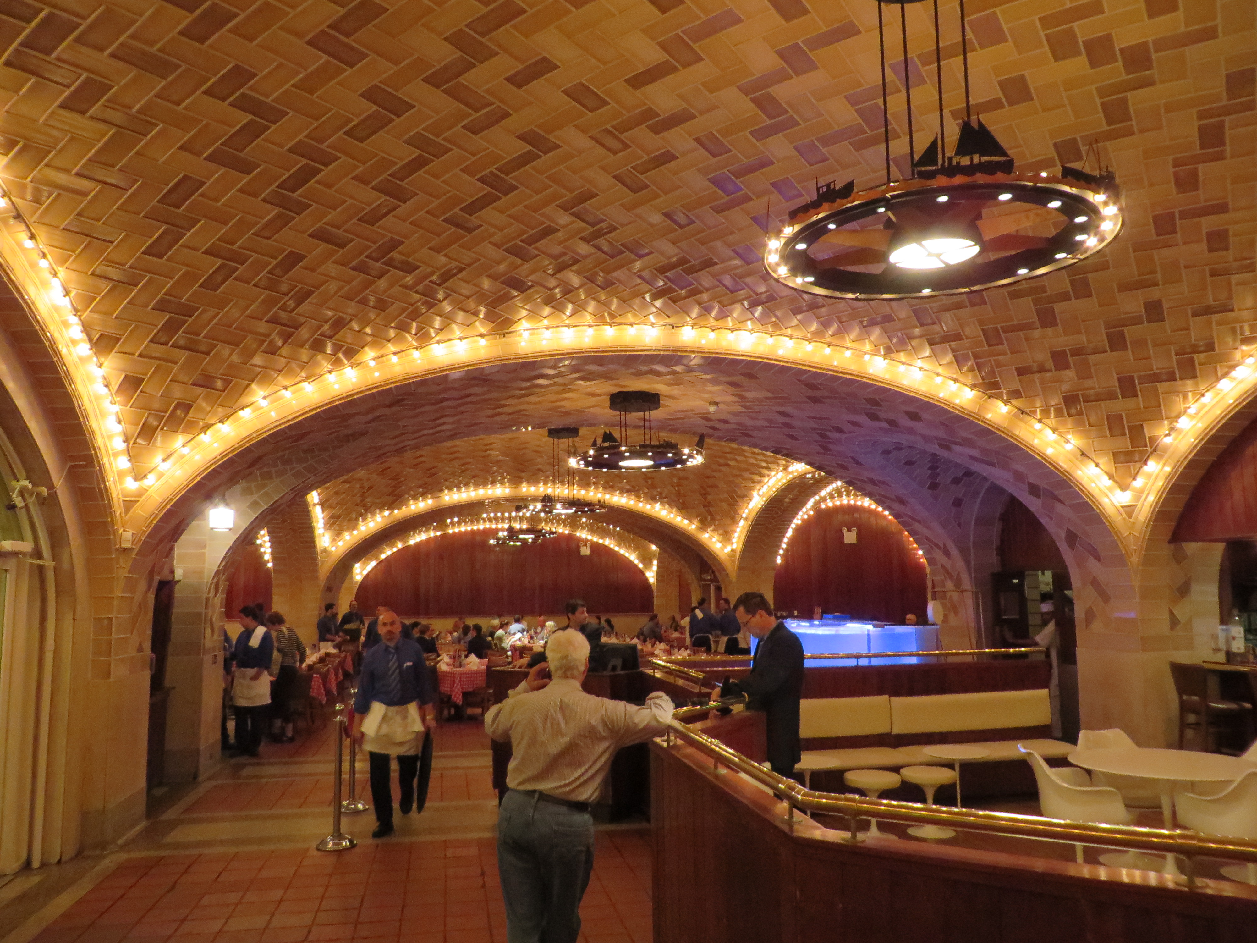 Grand Central Oyster Bar & Restaurant, Grand Central Terminal, Lower Level Dining Concourse, 89 East 42nd Street, Manhattan, New York.